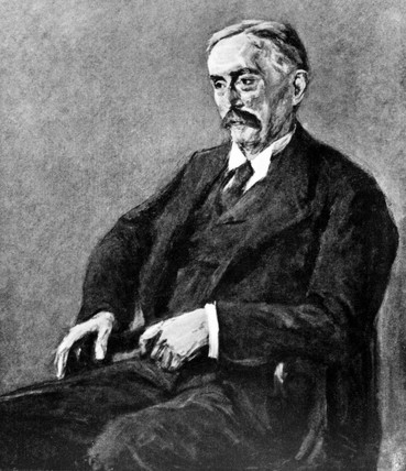 Painted portrait of Dr. Otto Schott (1851-1935) by Max Liebermann